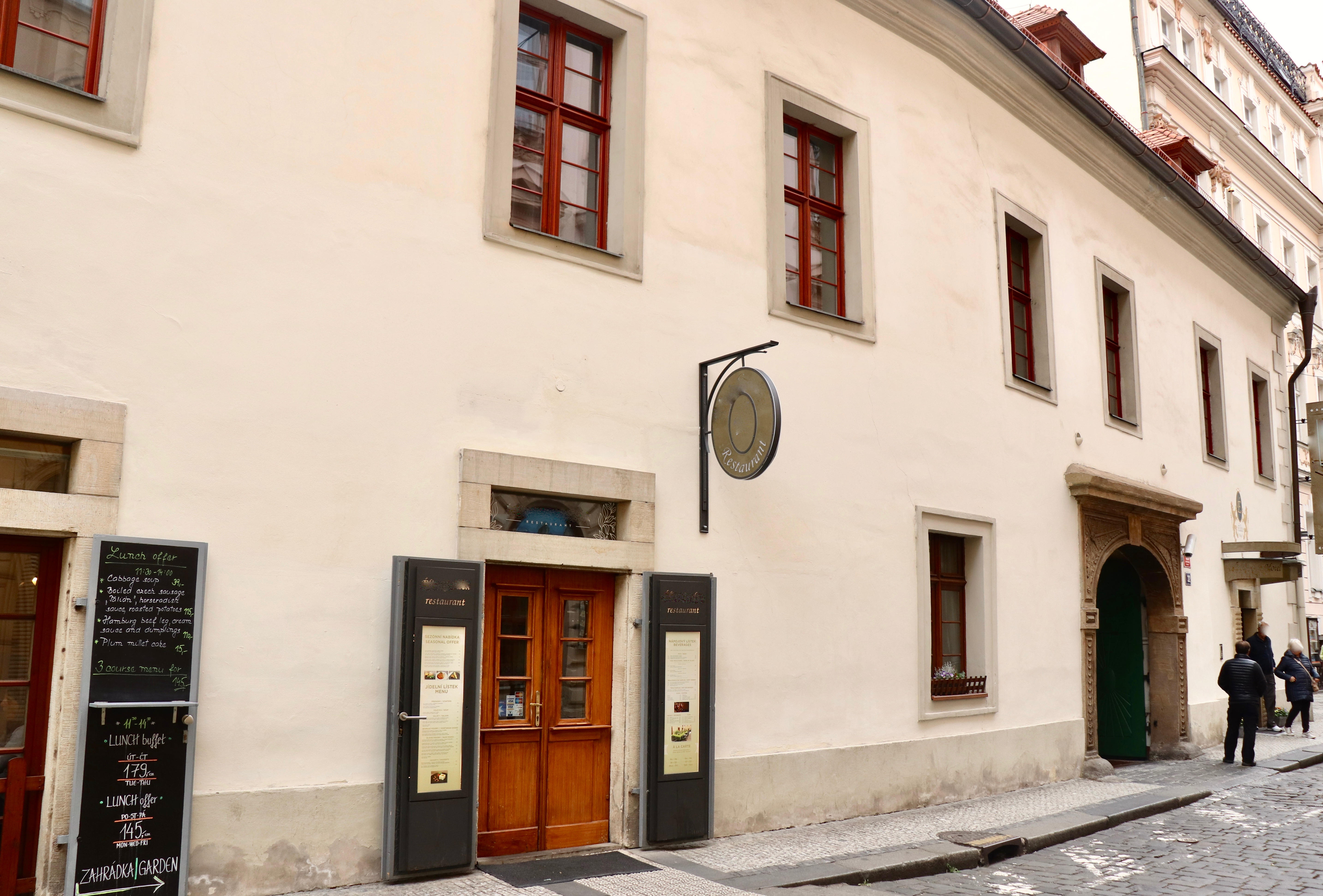 Pohled na dům